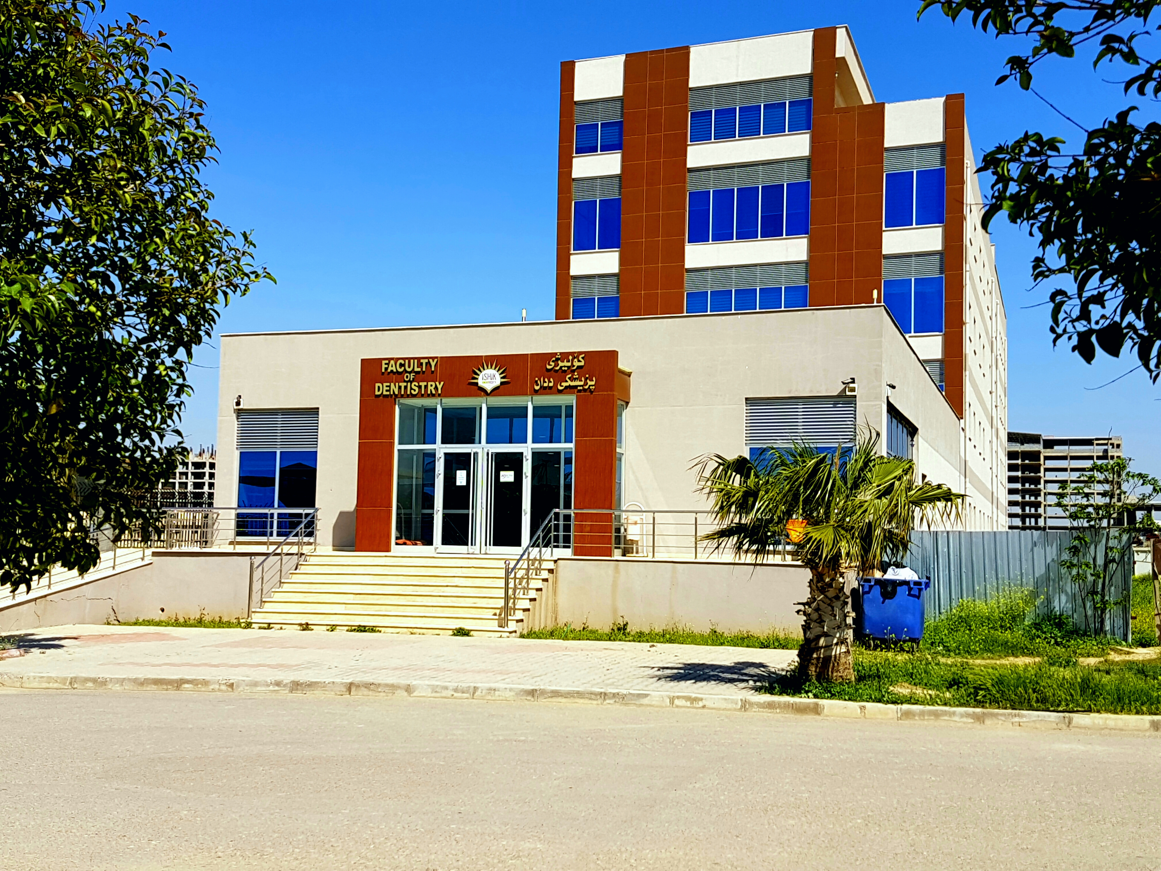 Faculty of Dentistry in Ishik University